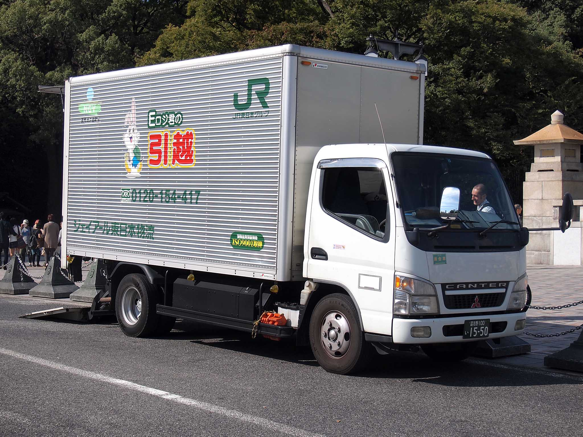 Mitsubishi Fuso Canter CNG with Pabco body for JR East Logistics